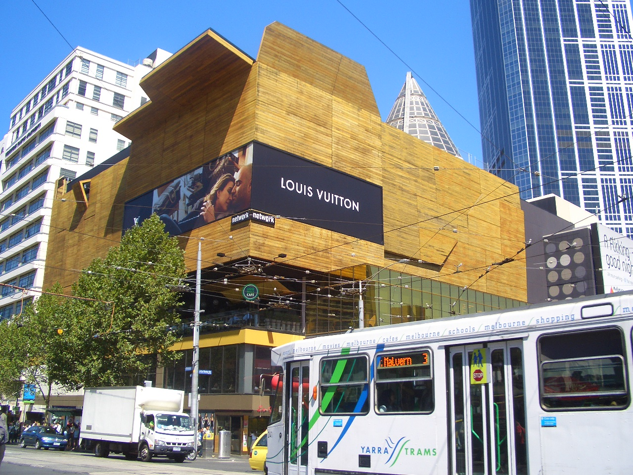 Melbourne Central Station